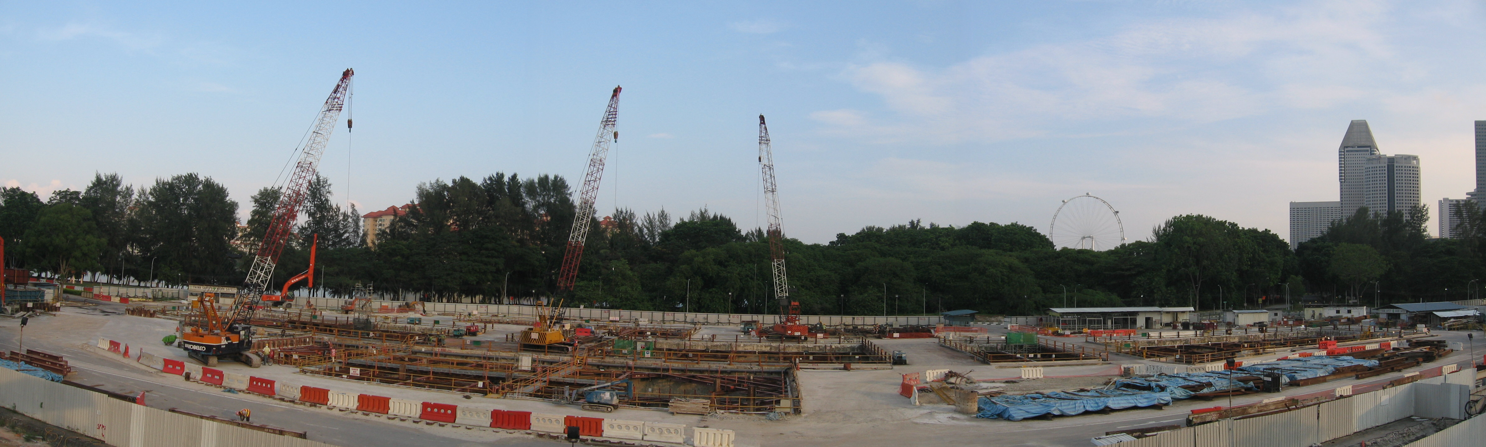 Nicoll Highway MRT Station, Construction site